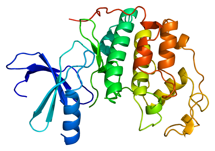 Structure of the CDK2 protein. Based on PyMOL rendering of PDB 1aq1.